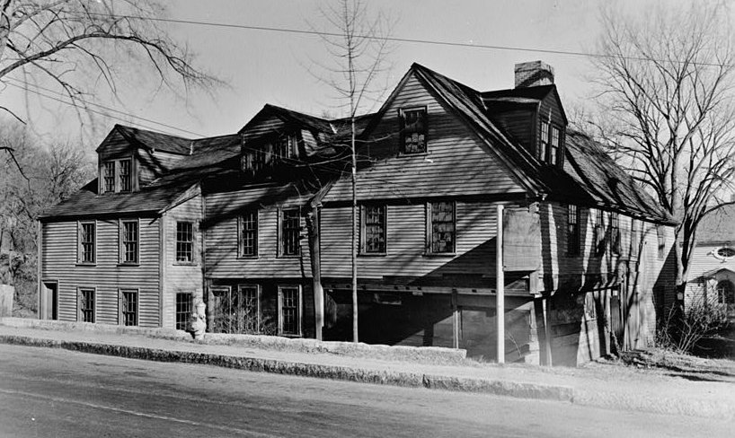 A 1936 HABS photo of the Proctor House, also known as the Ross Tavern, in Ipswich, Massachusetts, prior to its 1940 move to Jeffery's Neck Road.